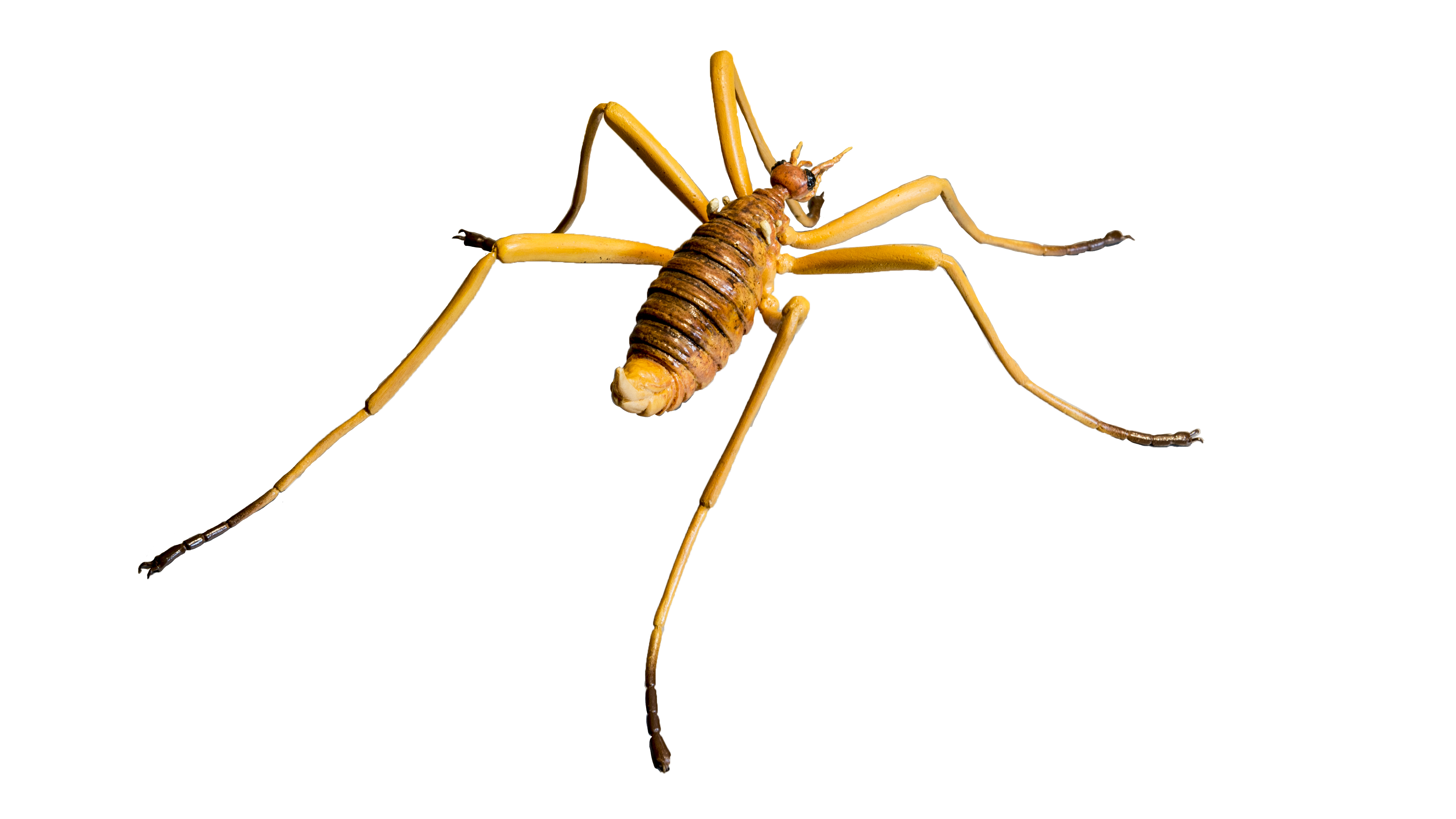 Snow flies (Chionea sp.). Reconstrution - scale 20:1.